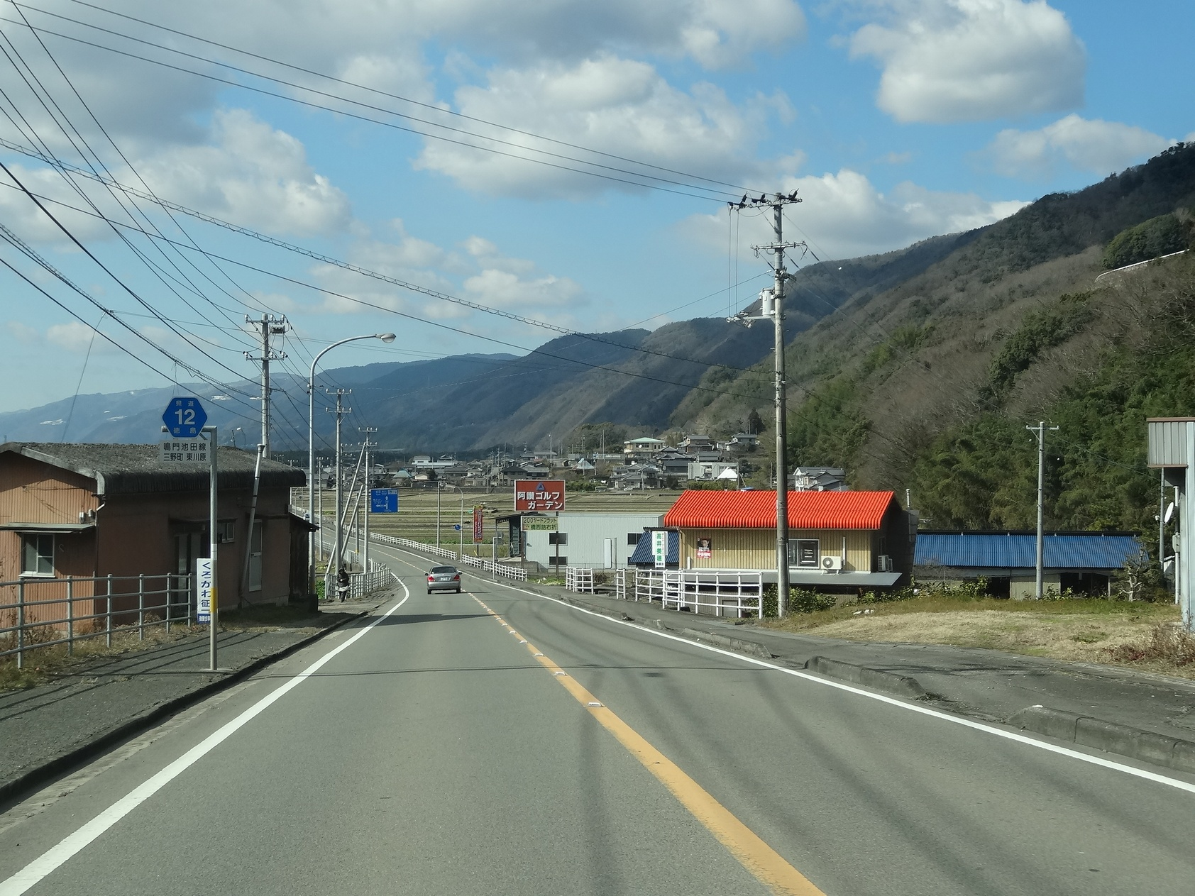 Tokushima Prefectural Road No.12 ; Naruto - Ikeda Line (Mino-cho, Miyoshi City, Tokushima Prefecture, Japan)